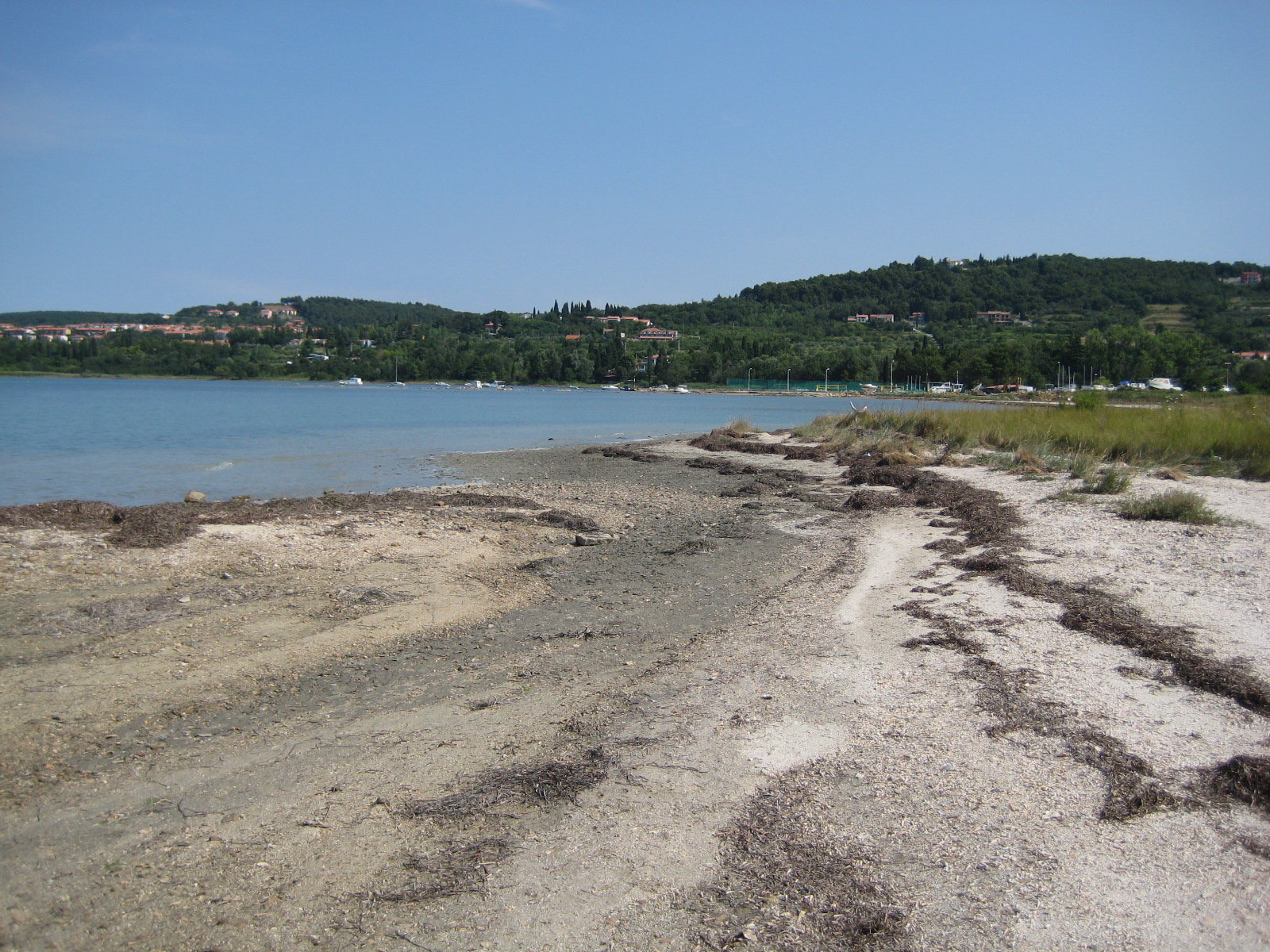 Shell-bank near Koper, Slovenia